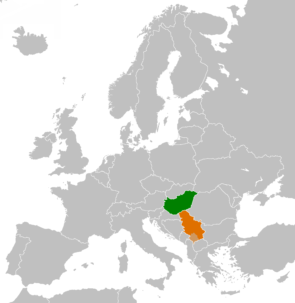 Location of Serbia and Hungary on the european continent.